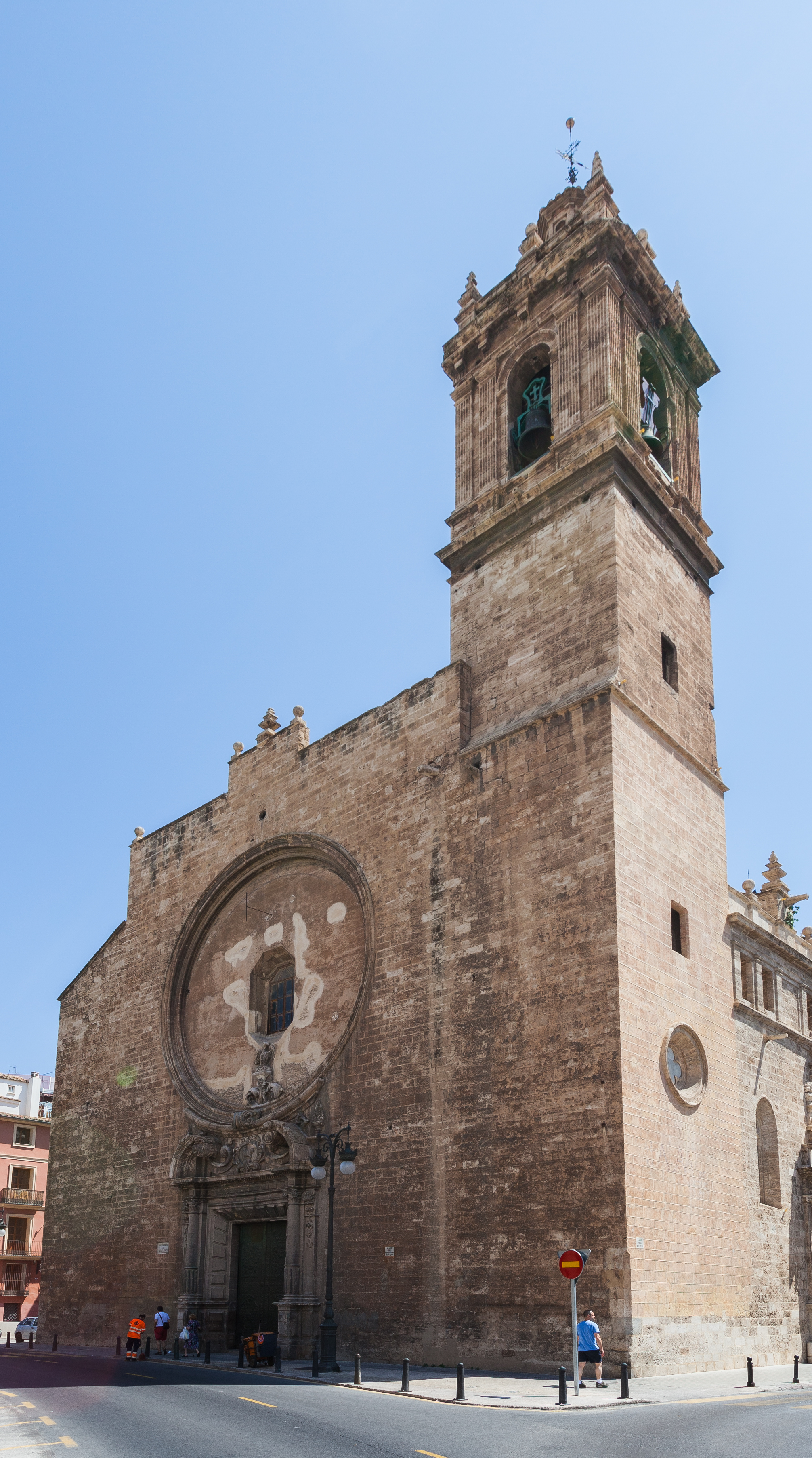 Juanes church, Valencia, Spain